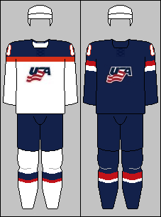 The home and away jerseys of the U.S. national ice hockey team used from the 2014 IIHF World Championship.